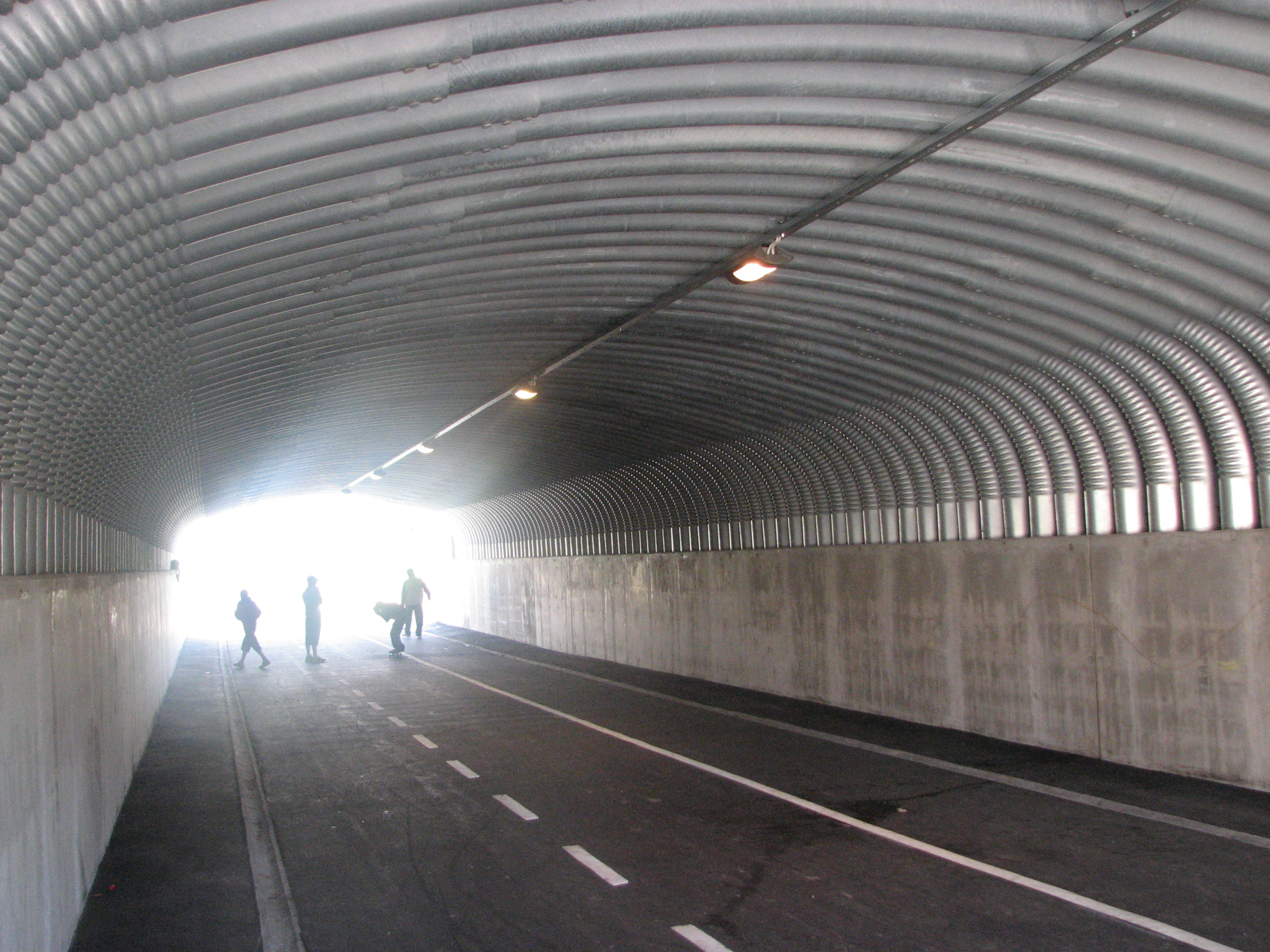 Subway under crossroad of Ringtee street and Aardla street in Tartu, Estonia